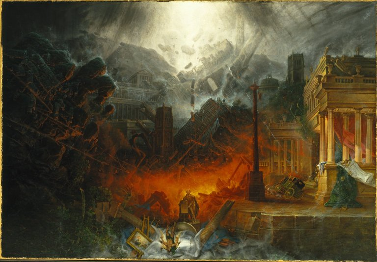 The Tempest, Act IV, Scene 1, lines 151-156.